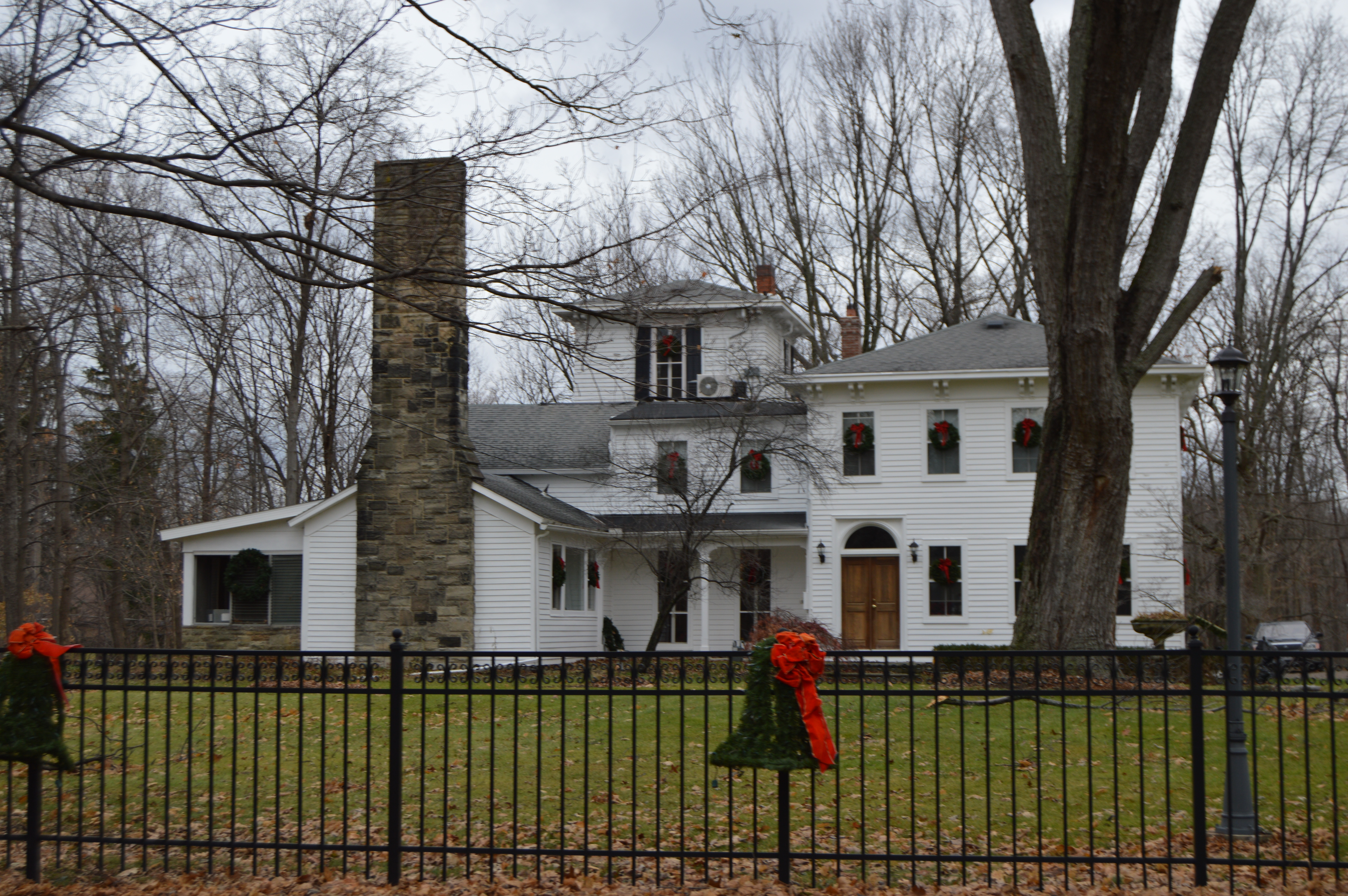 Southern side of the John and Maria Adams House, located at 7315 Columbia Road (State Route 252) north of Olmsted Falls in Olmsted Township, Cuyahoga County, Ohio, United States. Built in 1820 and later modified to the present state, it is listed on the National Register of Historic Places.